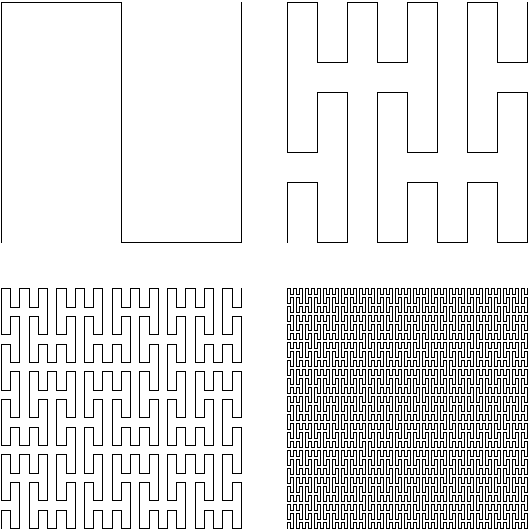 Peano curve (four steps) This image was created with Xfig